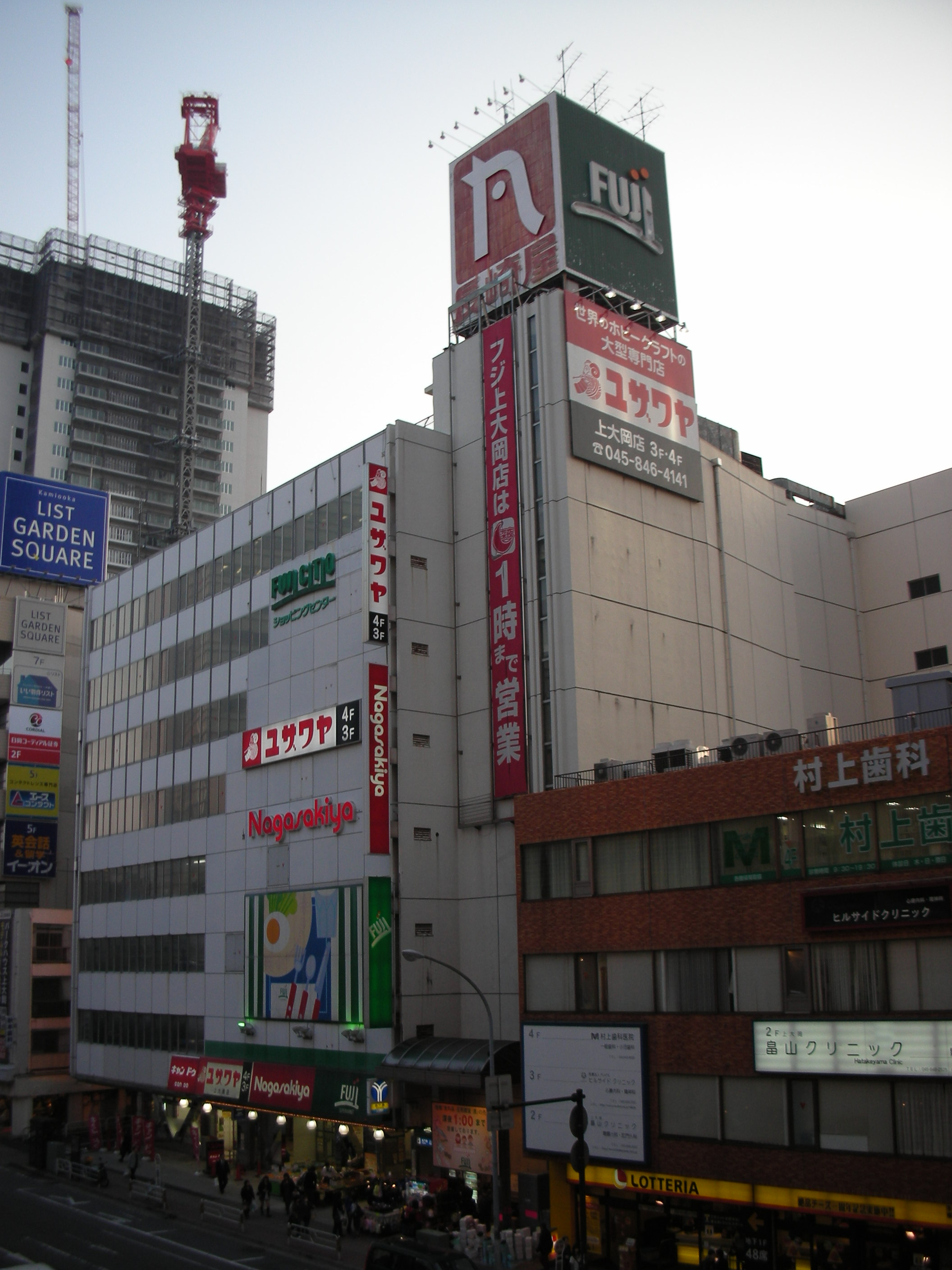 Nagasakiya Kamioooka, Yokohama